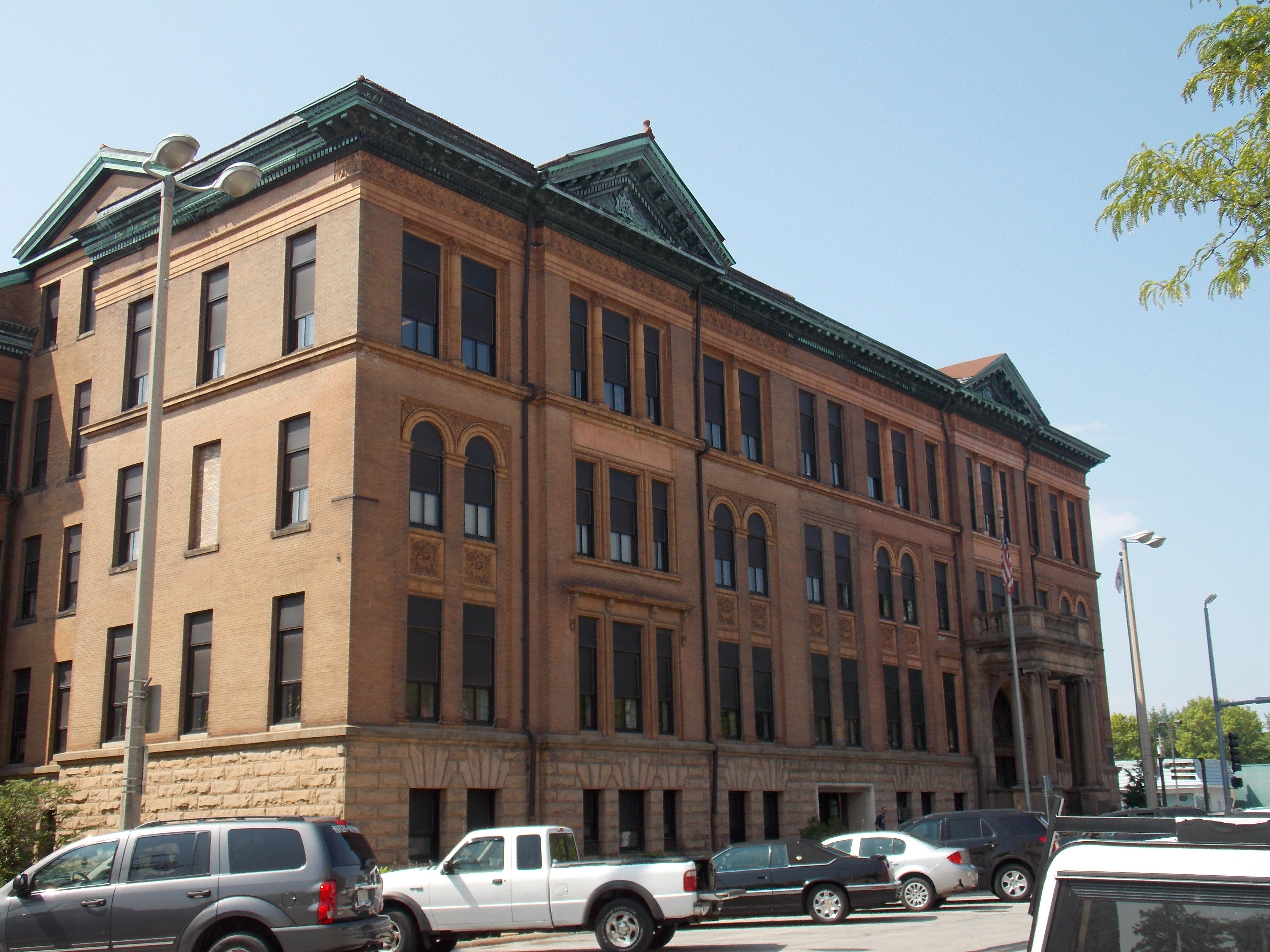 Rock Island County Office Building in downtown Rock Island, Illinois. The building originally housed the home offices of Modern Woodmen of America, a fraternal insurance company.